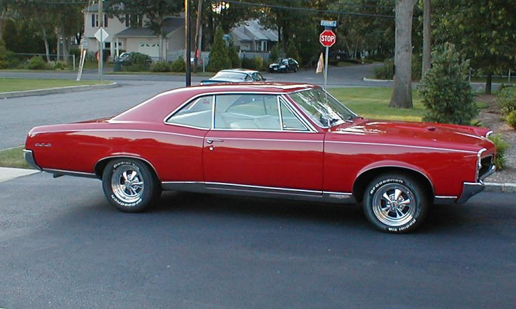 1967 Pontiac GTO